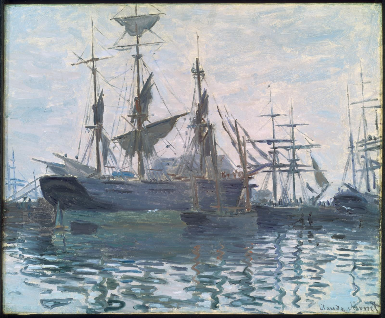 Ships in a Harbor